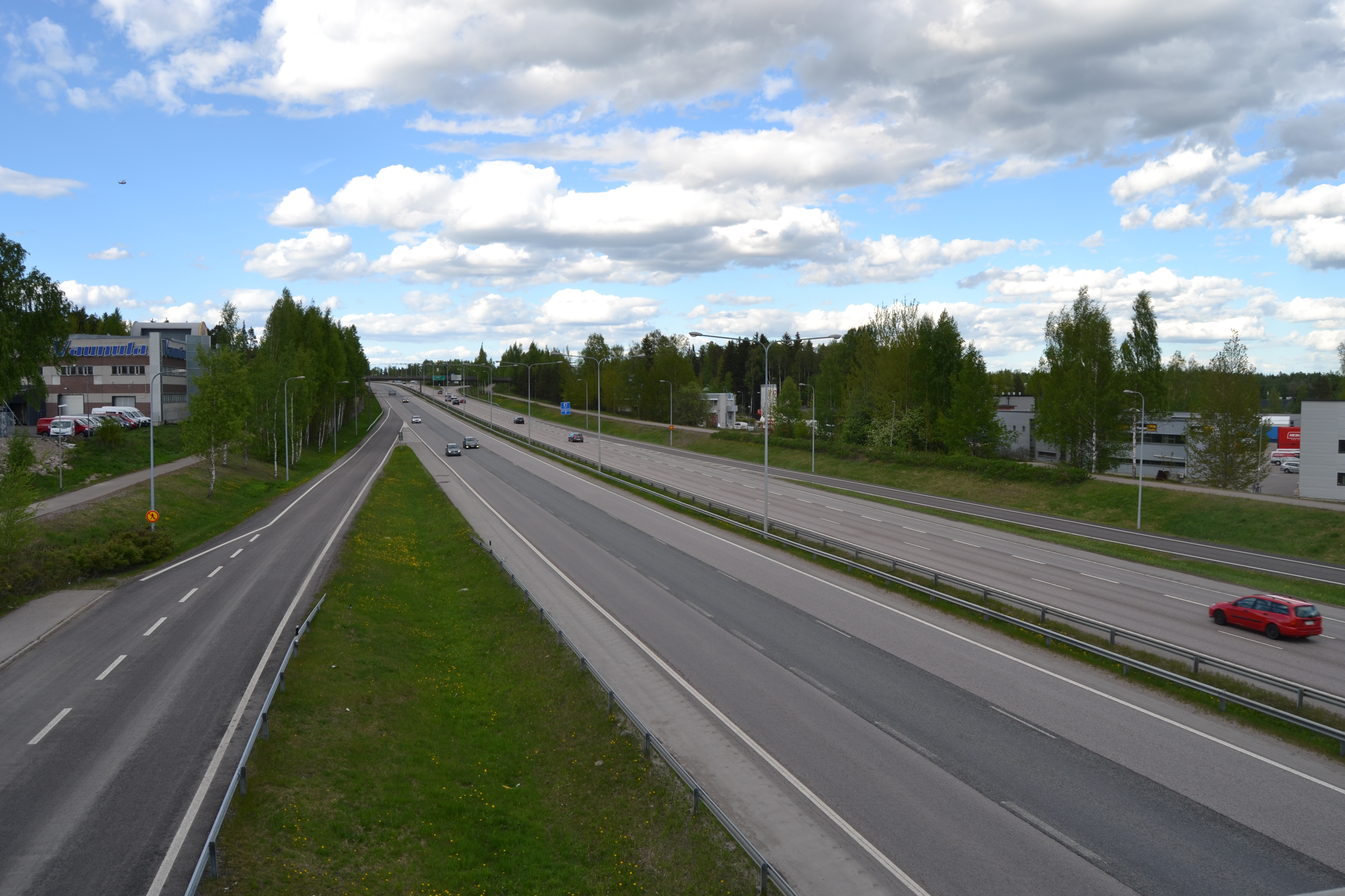 Tuusulanväylä (National road 45) motorway as seen from Ilmakehä bridge in Vantaa, Finland towards Tuusula